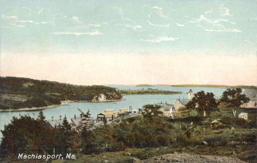 View of Machiasport, Maine